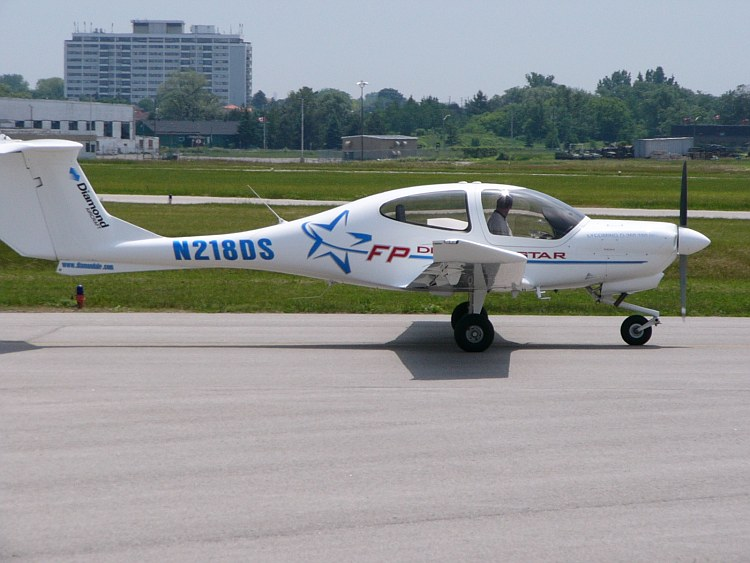 Photo of a Diamond DA40 Diamond Star (N218DS). I took this photo.